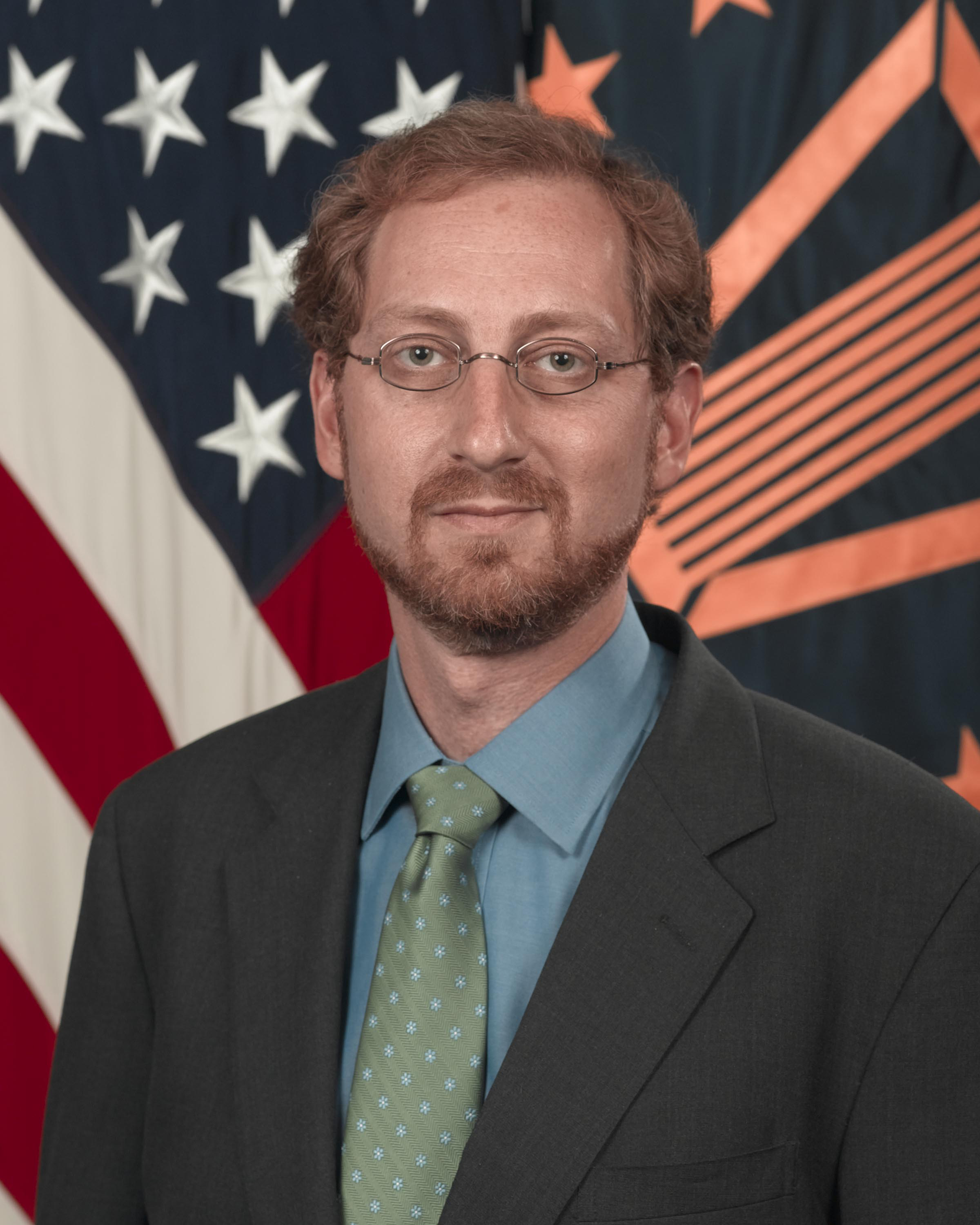 Deputy Assistant Secretary of Defense for East Asia Michael Schiffer.